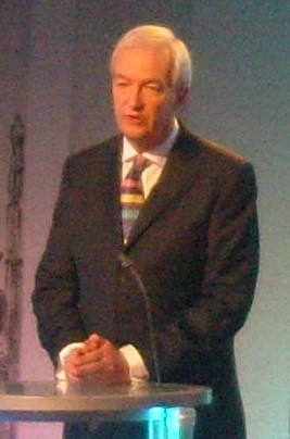 Jon Snow